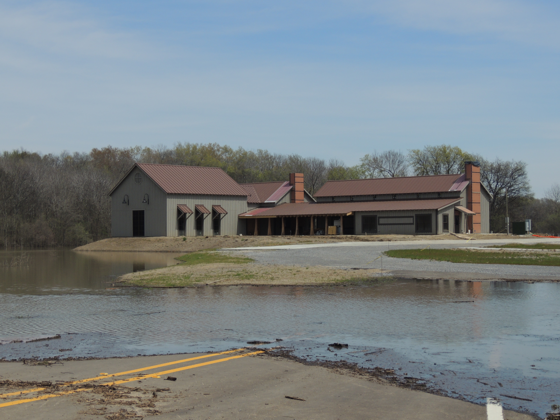 Flood waters in the Yazoo Backwater Area surround the Theodore Roosevelt National Wildlife Refuge Visitor Center under construction near Onward, Mississippi, on 23 March 2019. The water level was about 97 feet (29.6 meters) above sea level. Water levels fluctuated before cresting about 15 inches (0.37 meters) higher on 23 May 2019 (and remains within a foot of that level as of early July).